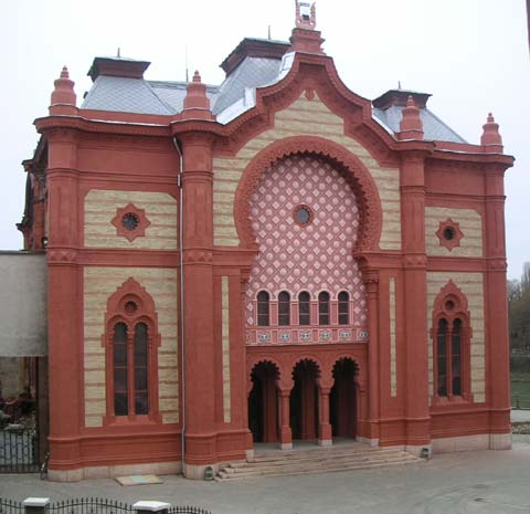 Uzhhorod, Ukraine, former synagogue, now philharmonic theatre author: Elke Wetzig (elya) date: 2004-4-10 Ehemalige Synagoge, heute Philharmonie in Uschhorod, Ukraine Fotografin: Elke Wetzig Aufnahmedatum: 10. April 2004